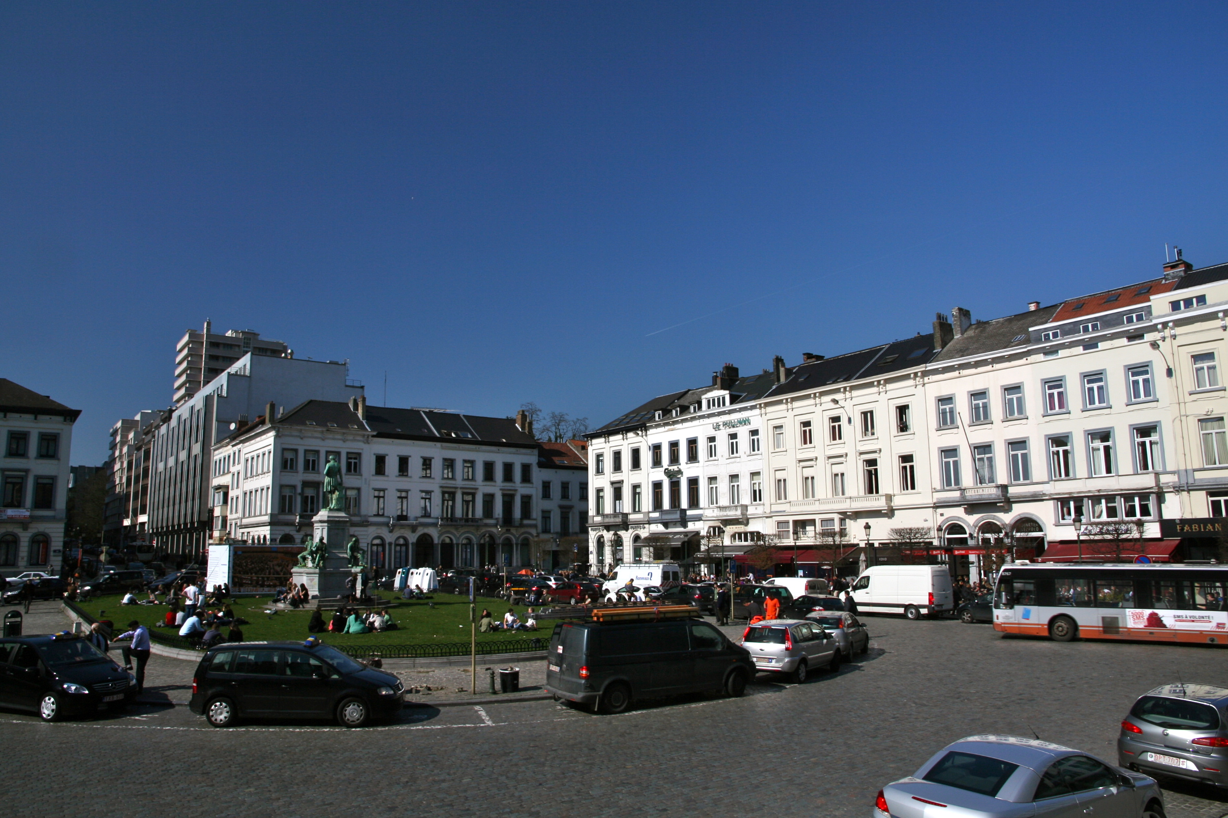 Place du Luxembourg, Brussels Place du Luxembourg, Brussels. 21 march, mid afternoon on a beautiful early spring day.